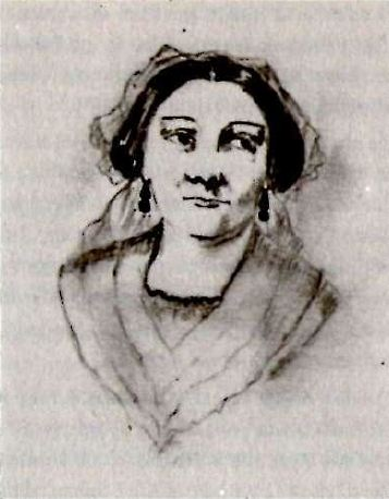 Şevkefza Sultan (12 December 1820 – 17 September 1889; meaning "who cheers up") was the wife of Sultan Abdülmecid I and Valide Sultan to their son Murad V.